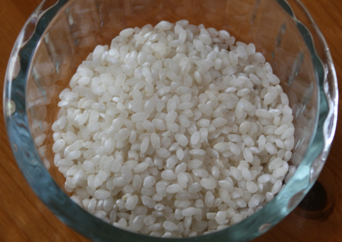 A Bowl of raw Bomba Rice that is often used for Paella.